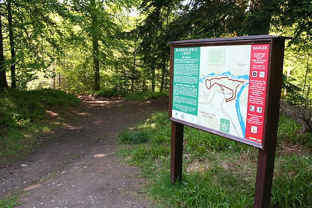 The entry to Randolph's leap.